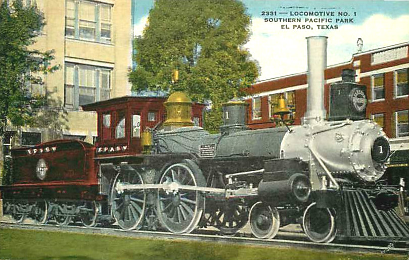 Postcard photo of the El Paso and Southwestern's locomotive #1 on permanent display in El Paso, Texas. The locomotive was built in 1857 by Breese and Kneeland. It originally was owned by the Milwaukee and Prairie Du Chein Railroad, becoming part of the Milwaukee Road when the Milwaukee and Prairie Du Chein railroad merged with that line. El Paso and Southwestern bought the locomotive and it was in service for then until 1903. It was refurbished in 1909.